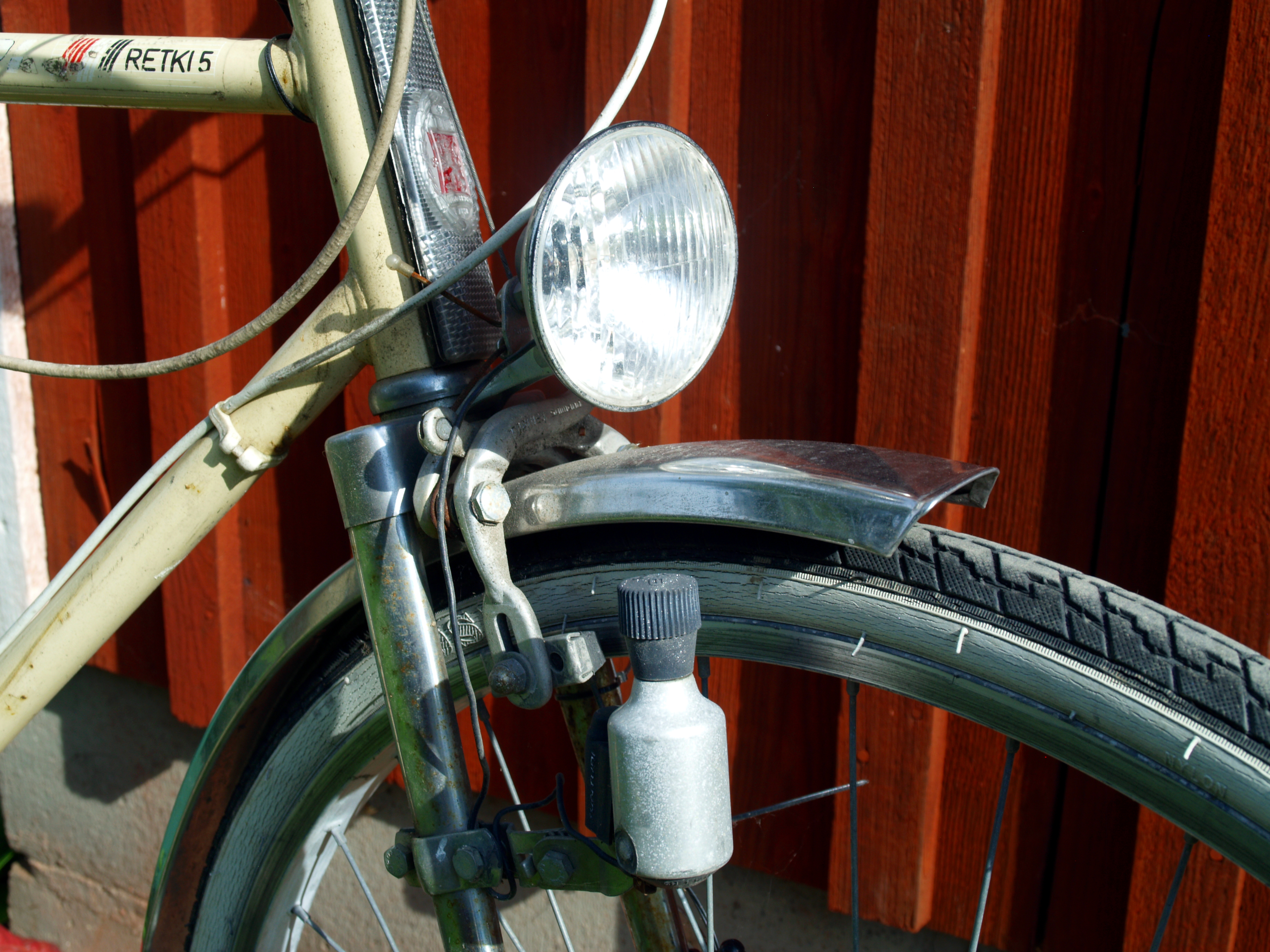 Bicycle dynamo and light.